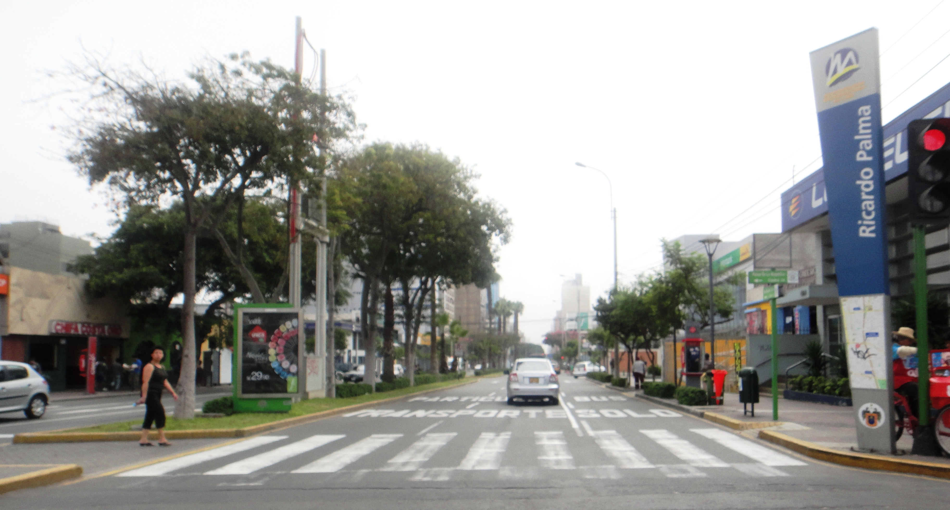 Ricardo Palma Ave. in Miraflores District, Lima-Peru.